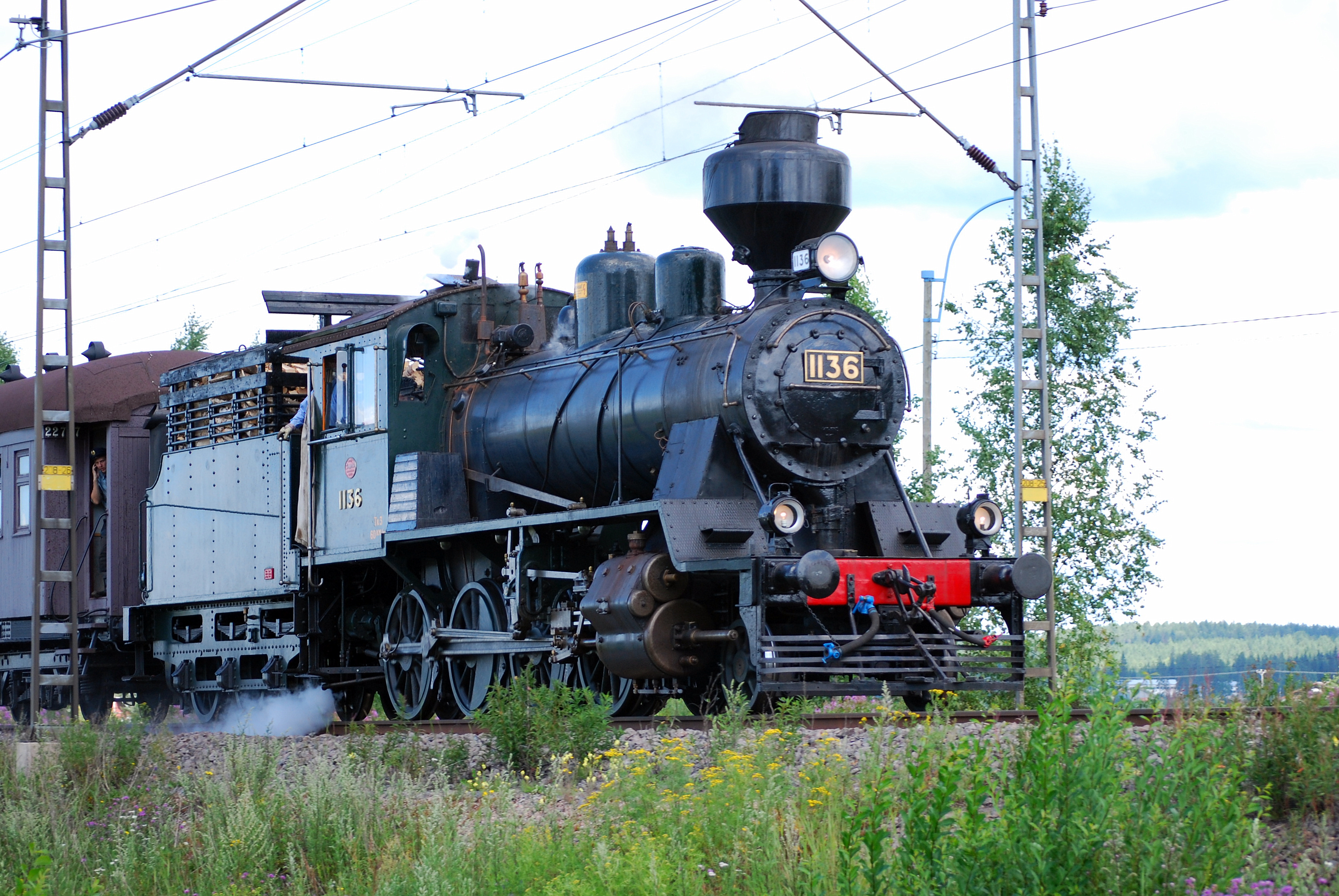 VR Class Tk3 no. 1136 steam locomotive running as special service from Kouvola to Kotka. Modern power lines detract from the picture.